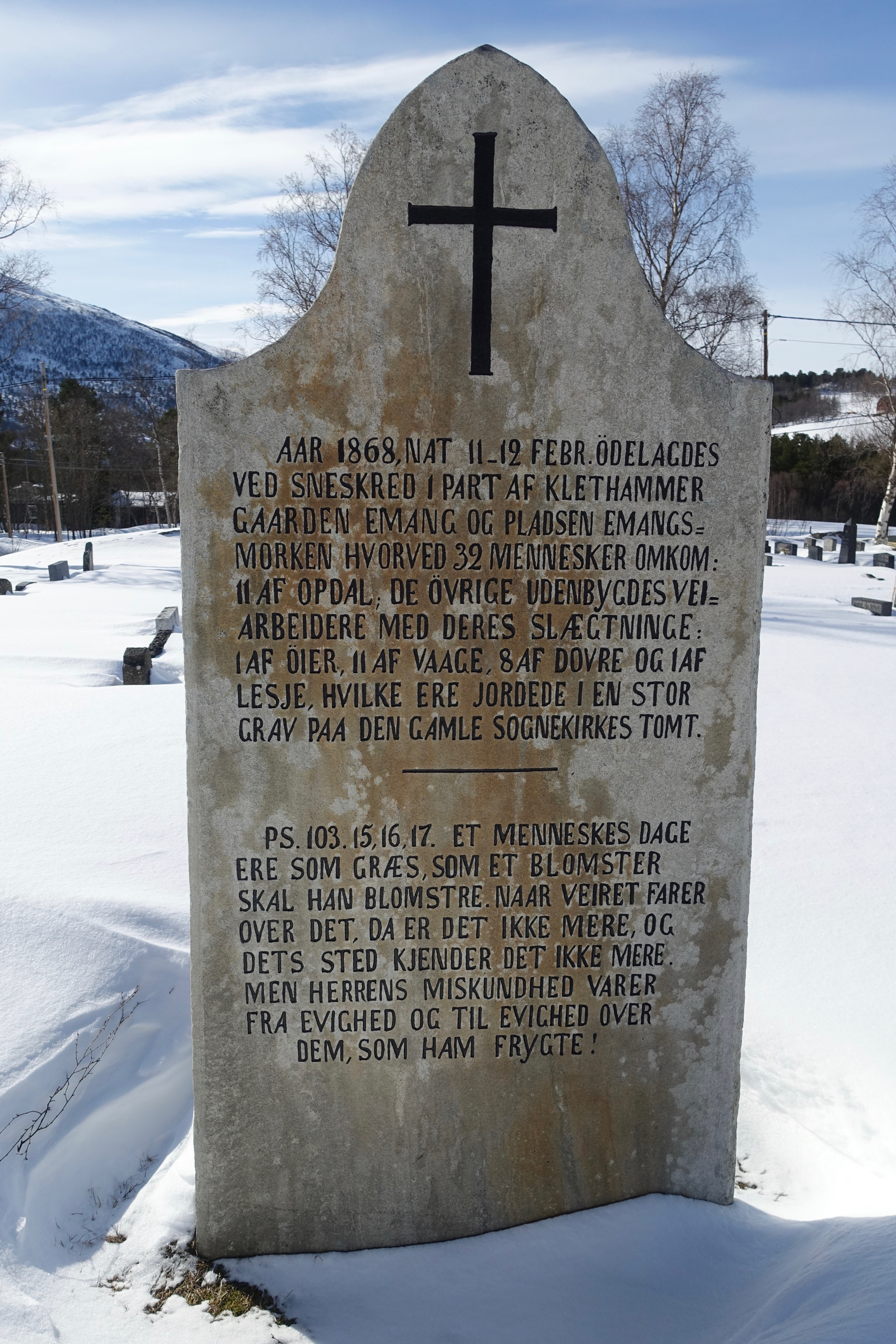 Lønset kirke/kyrkje in Oppdal, Trøndelag, Norway. Memorial stone of the Kletthamran avalanche 1868-02-12 where 32 people died. Photo 2019-03-19.